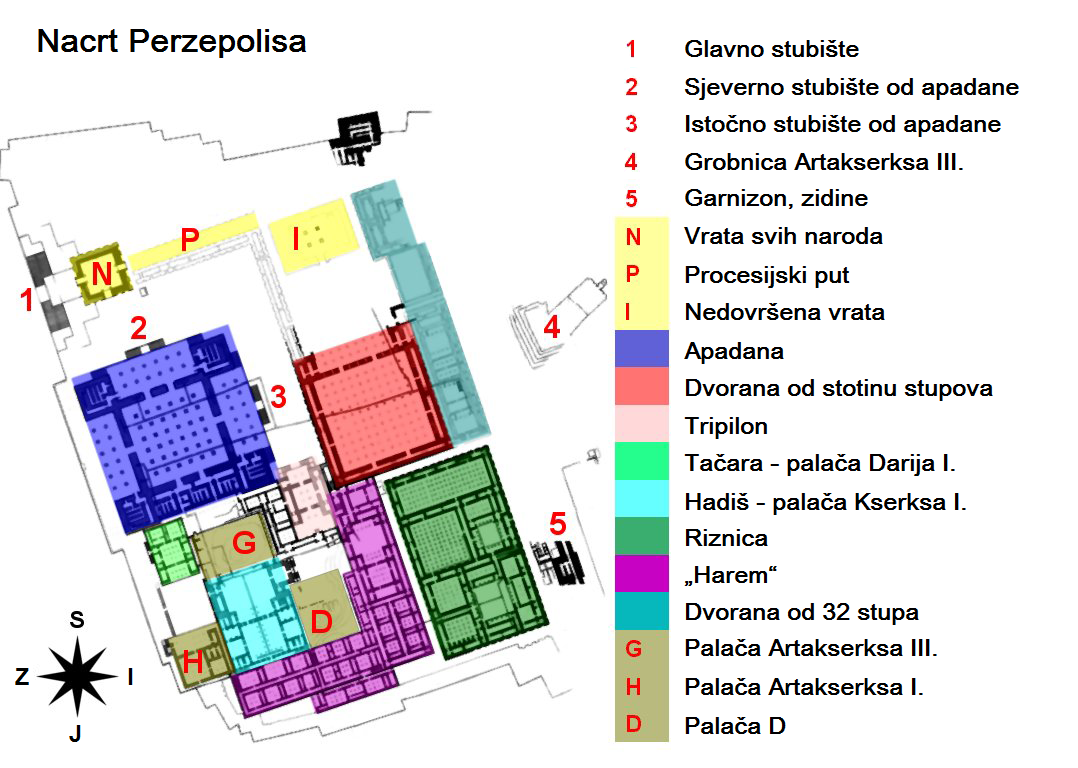 Persepolis complex map